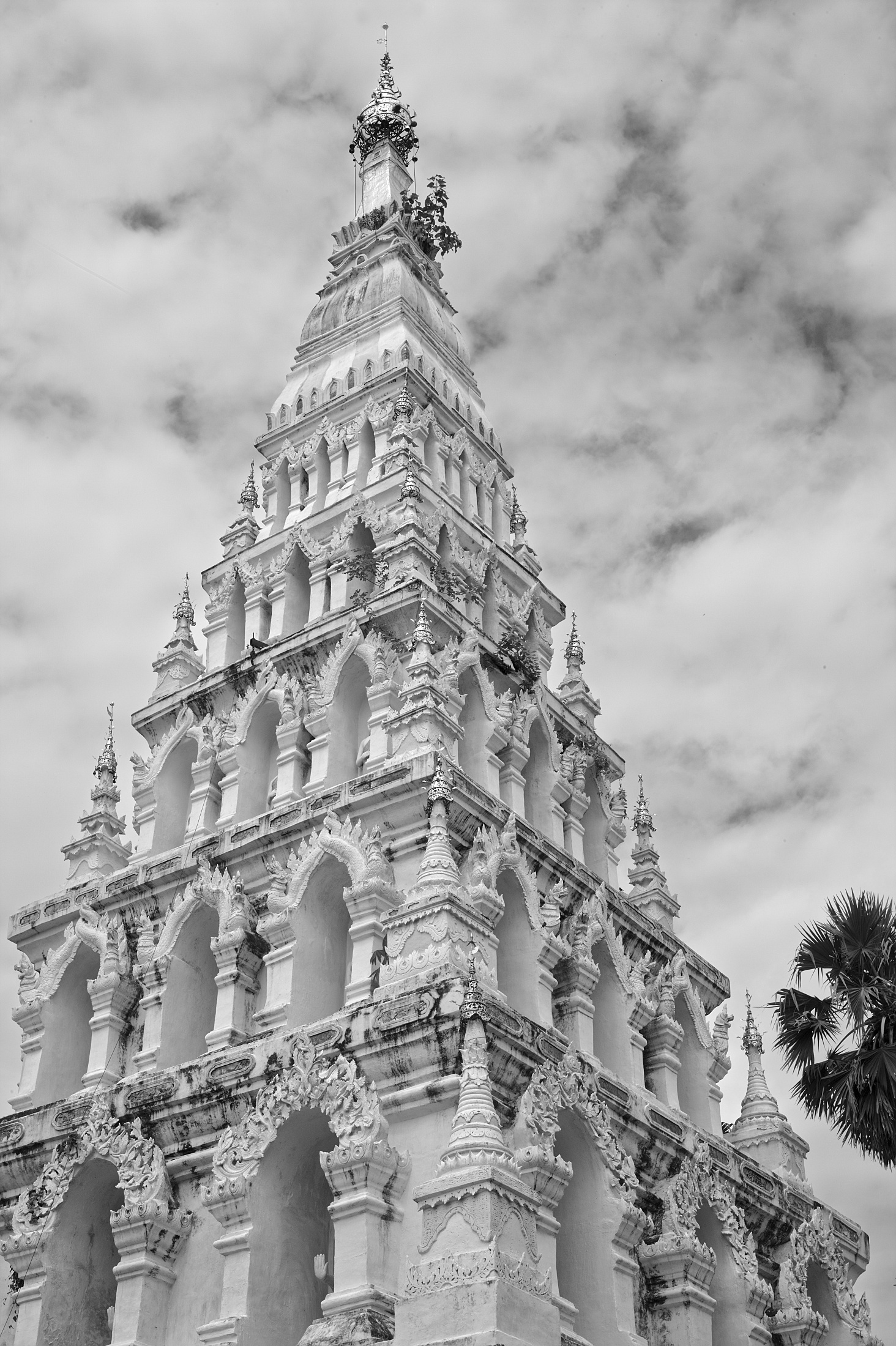 Partial height view of the stupa known as Chedi Liam, itself an ancient replica of a similar structure in Lamphun (then Haripunchai), from the Mon period, located in Wat Chedi Liam (formerly known as Wat Kum Kham), part of the Wiang Kum Kam archaeological site, Chiang Mai, northern Thailand. Tree included for scale.